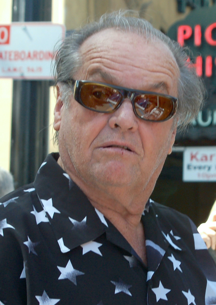 Jack Nicholson signing autographs at a ceremony for Dennis Hopper to receive a star on the Hollywood Walk of Fame.